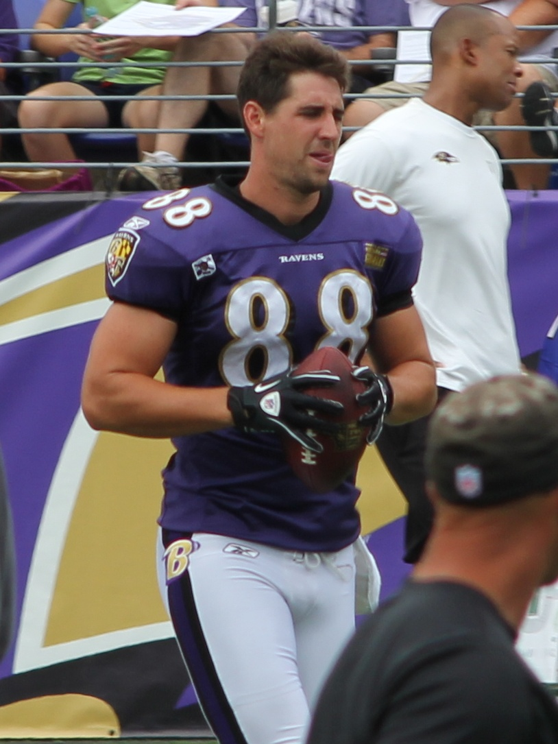 Dennis Pitta Aug 2011 M&T Bank stadium practice